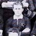 Cropped image of Bennie Osler in 1924